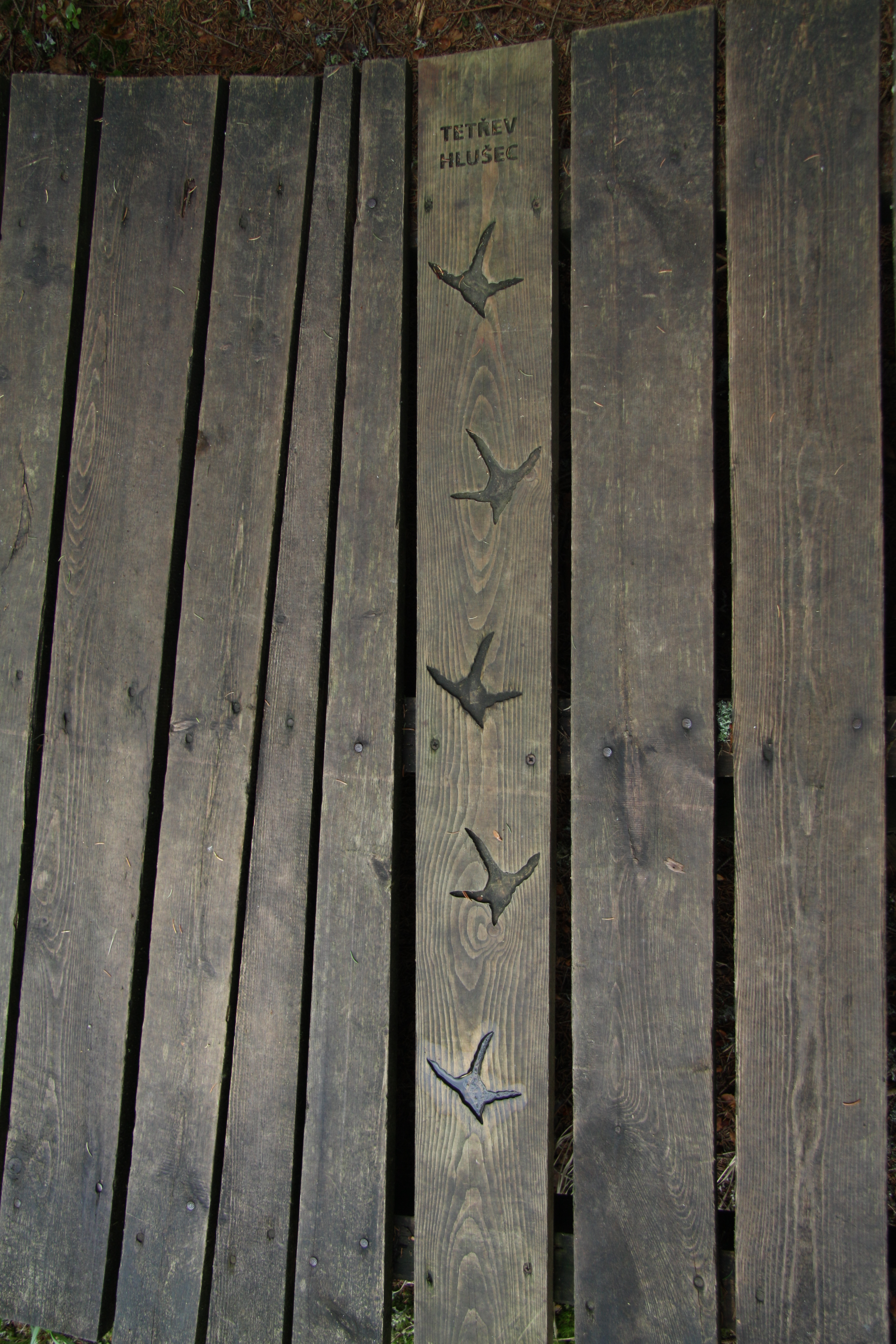 Foot print of Tetrao urogallus. National nature reserve Kladské rašeliny near Prameny village in Cheb District, Czech Republic